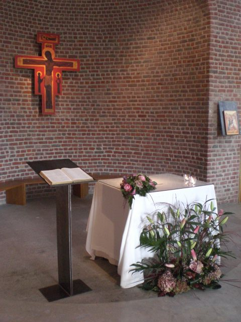 Chapelle de la Résurrection, Bruxelles, Rue Maerlant: Intérieur (Autel)